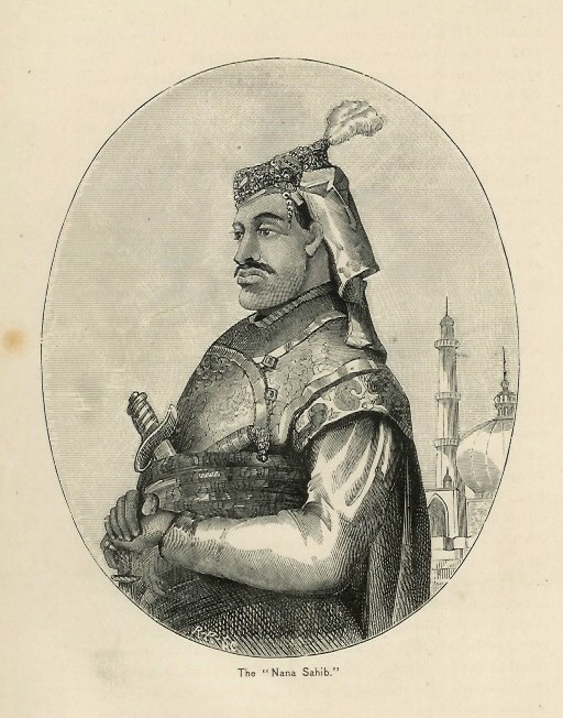 "Nana Sahib" (Dhundu Pant), one of the rebel Maratha chieftains. N.B. For evidence that this image is certainly not Nana Sahib (and no authentic portait of him is known), see wikipedia «Talk:Nana Sahib». The real subject is thought to be Ajoodia Pershad, a merchant.